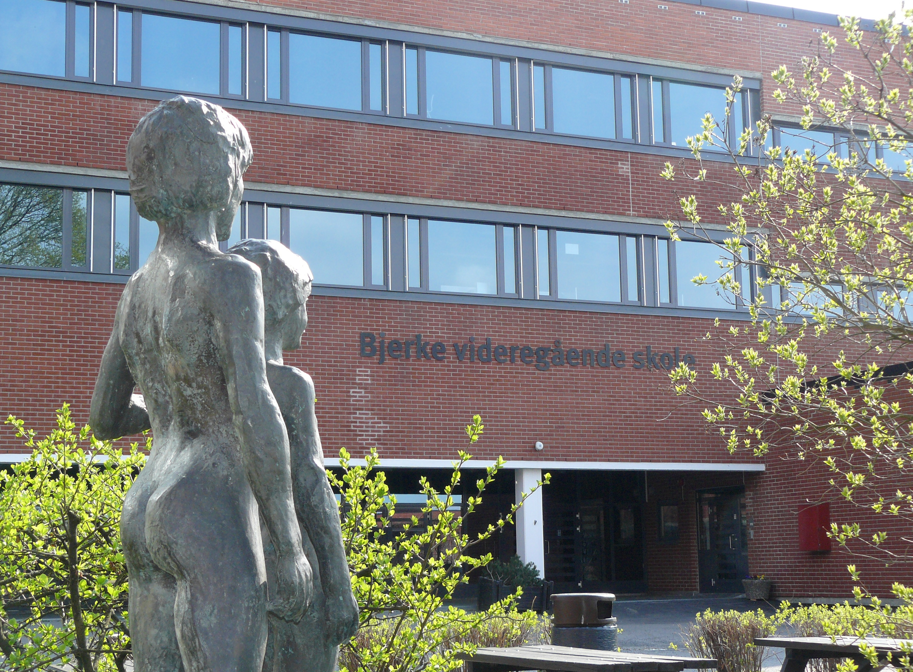 Bjerke videregående skoles schoolyard, with the statue siblings (søsken) by Annasif Døhlen